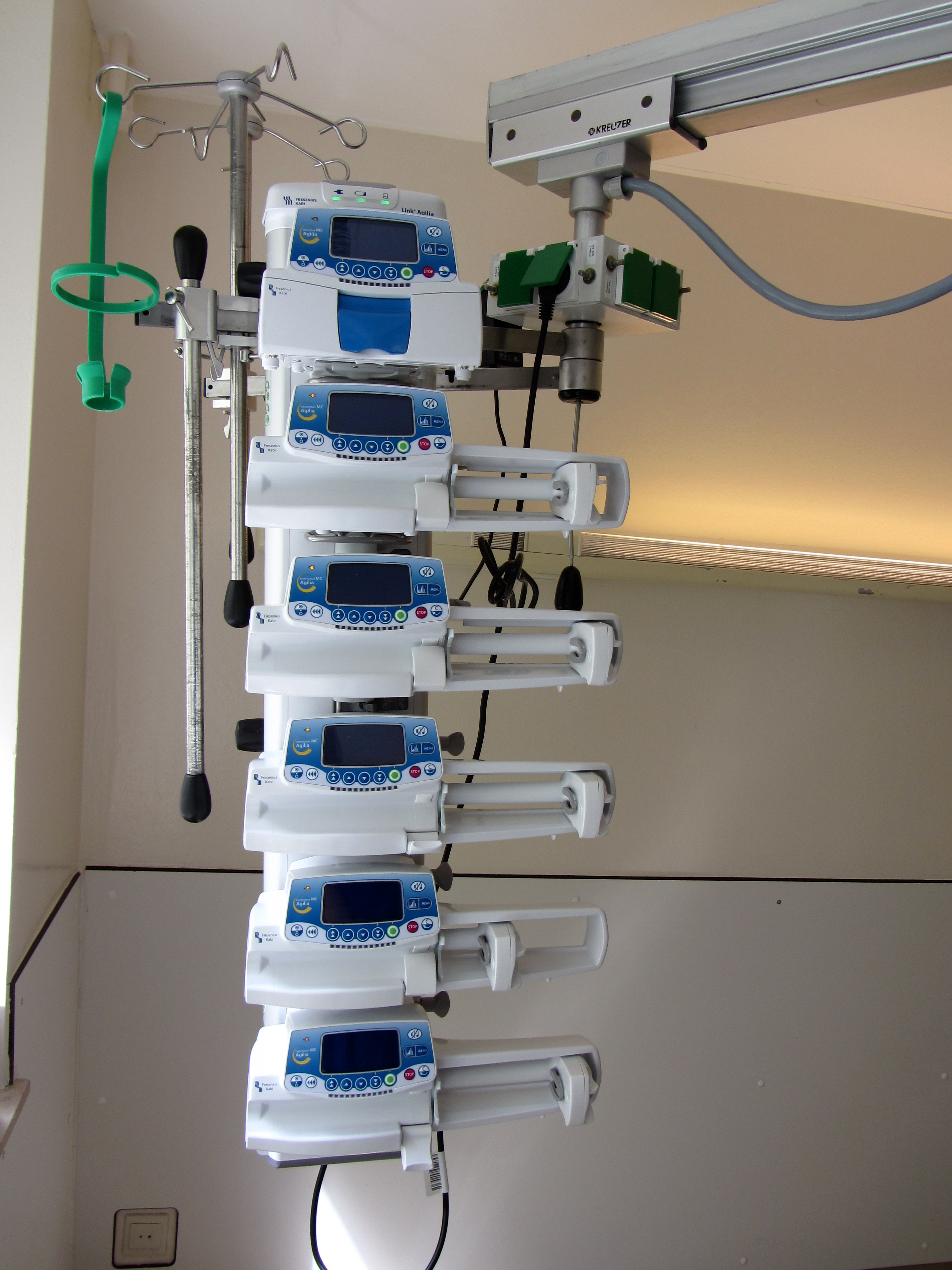 Syringe Drivers in a CCU